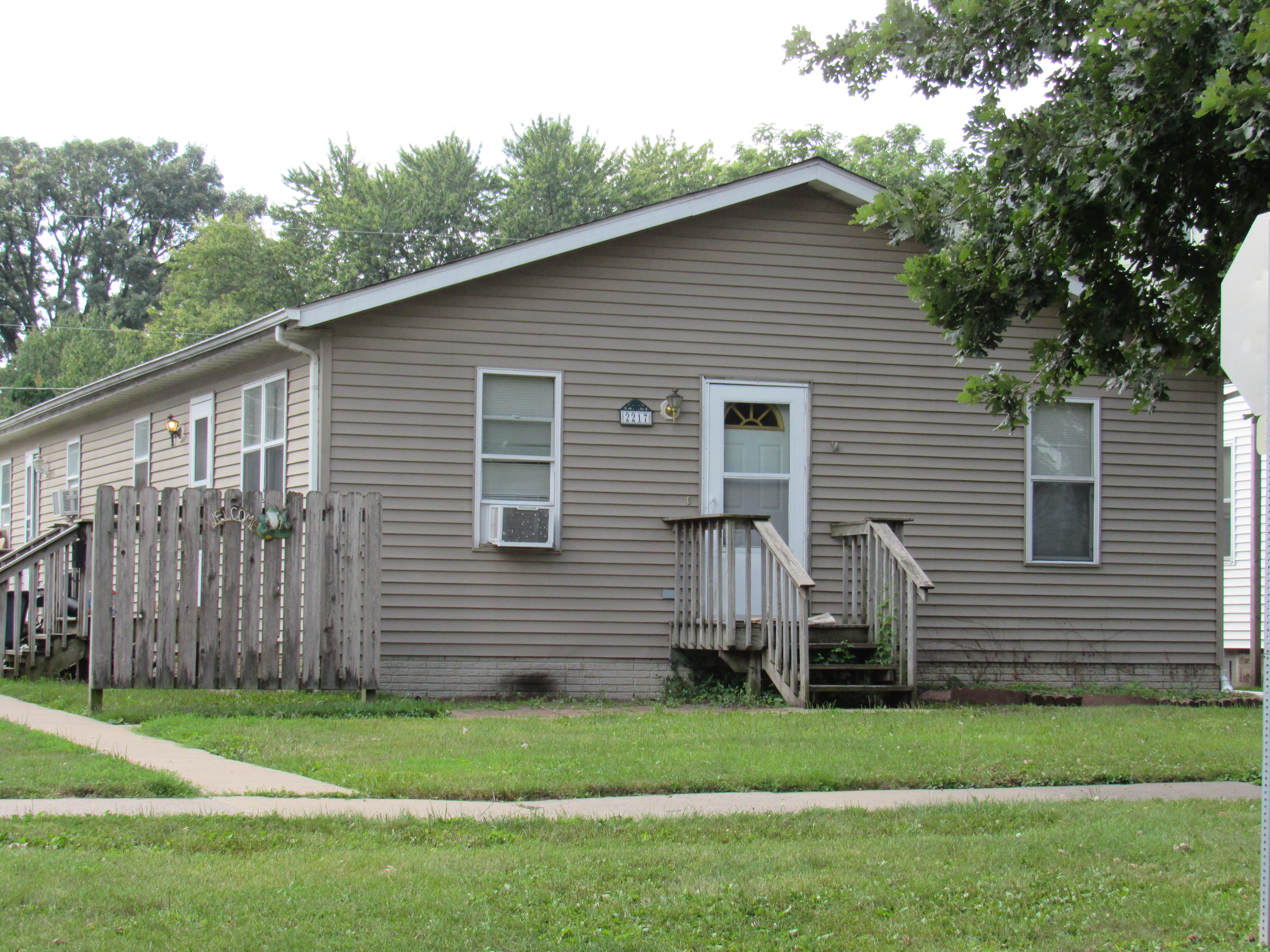 The house at 2217 W. 2nd Street in Davenport, Iowa is the location of the former William Claussen House, which was listed on the National Register of Historic Places.